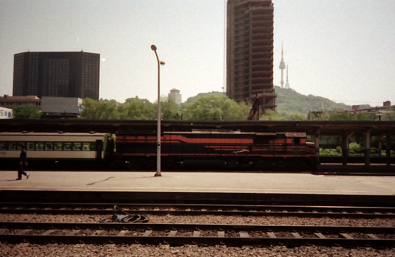 At Seoul station, South Korea, on year 1988. ready to haul a Tong-il Express train.